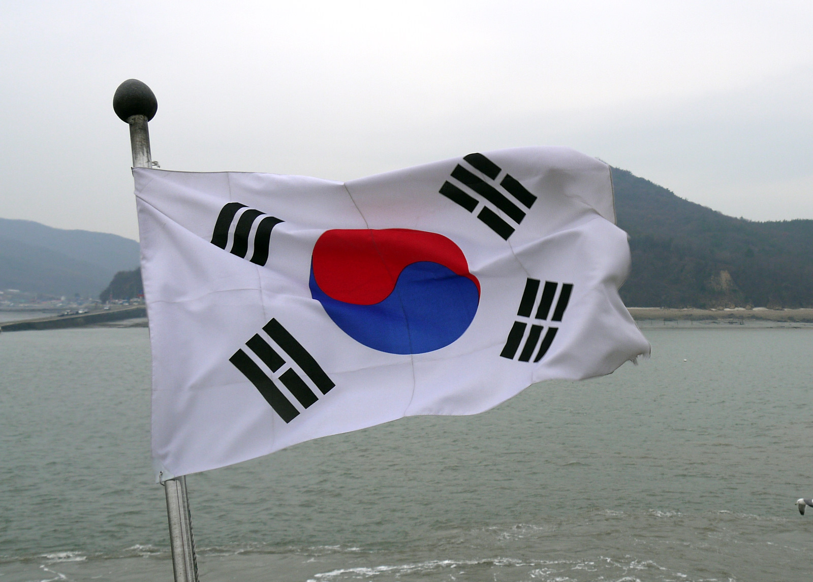 Flag of South Korea